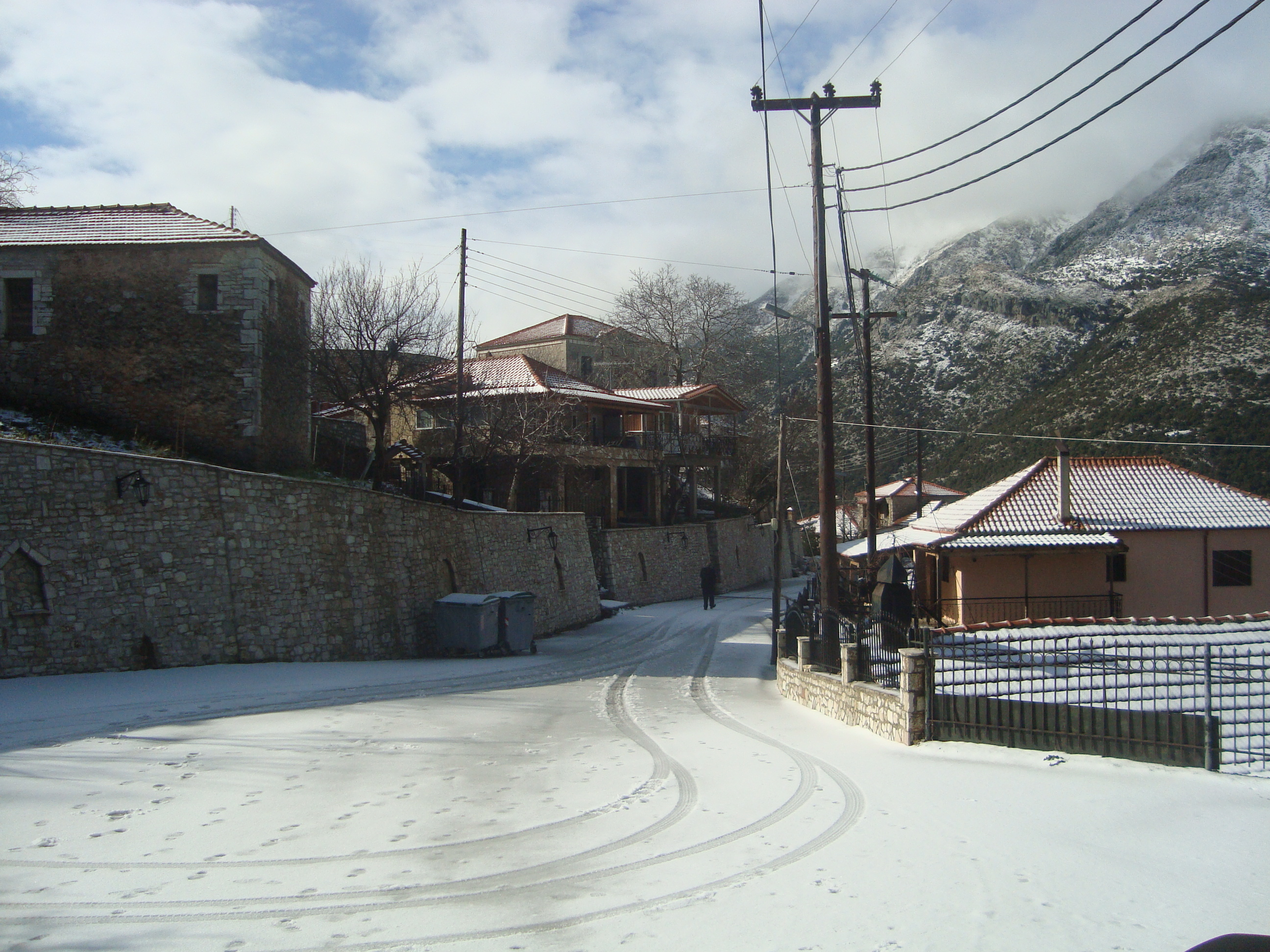 Kryobrysh - Kriobrisi village , Elis, Greece